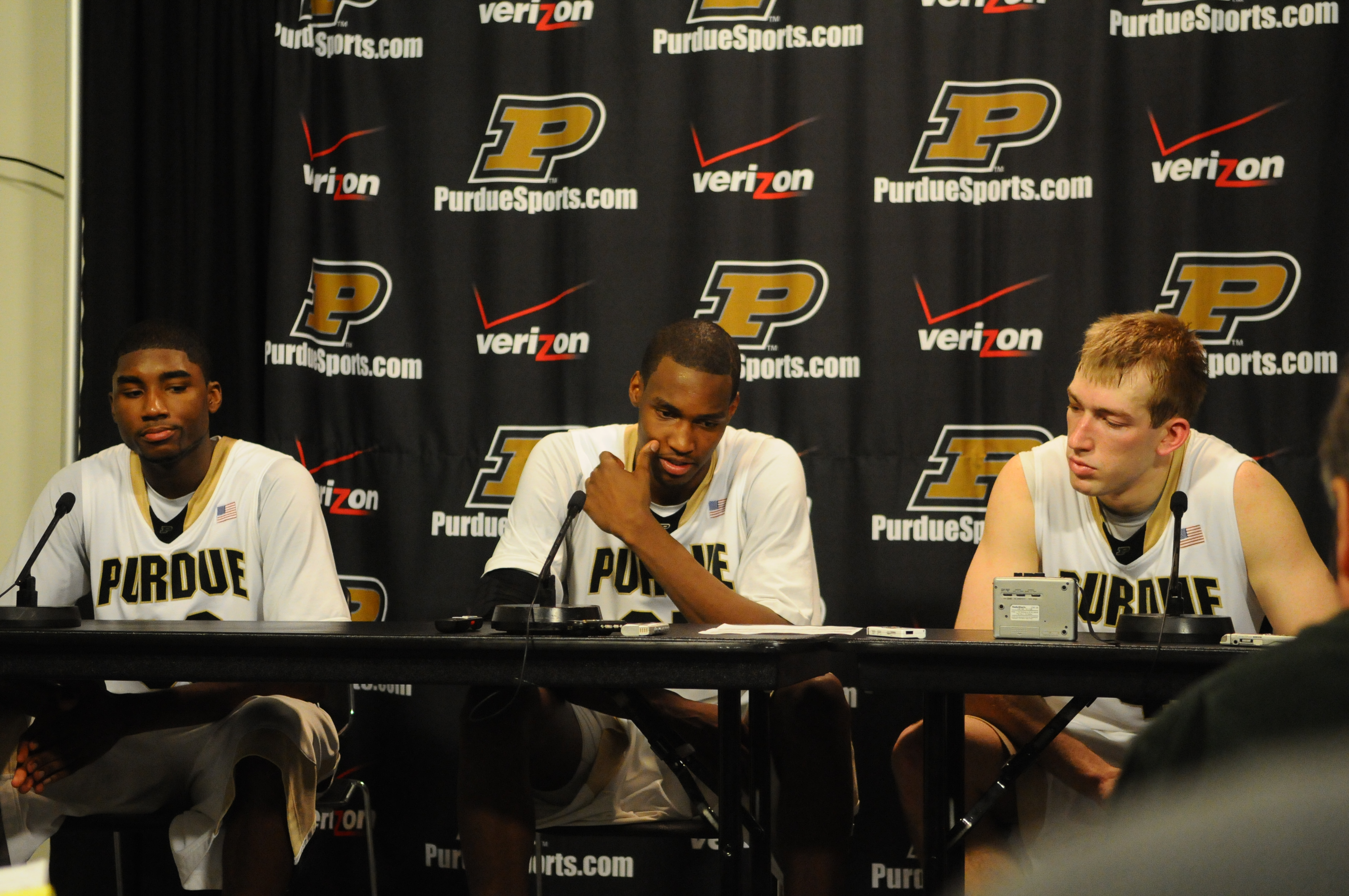 E'Twaun Moore, JuJuan Johnson and Robbie Hummel at press conference.